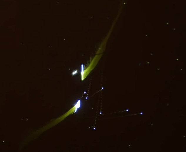 Picture of gameplay of Spacewar! (1962), running on a PDP-1 microcomputer